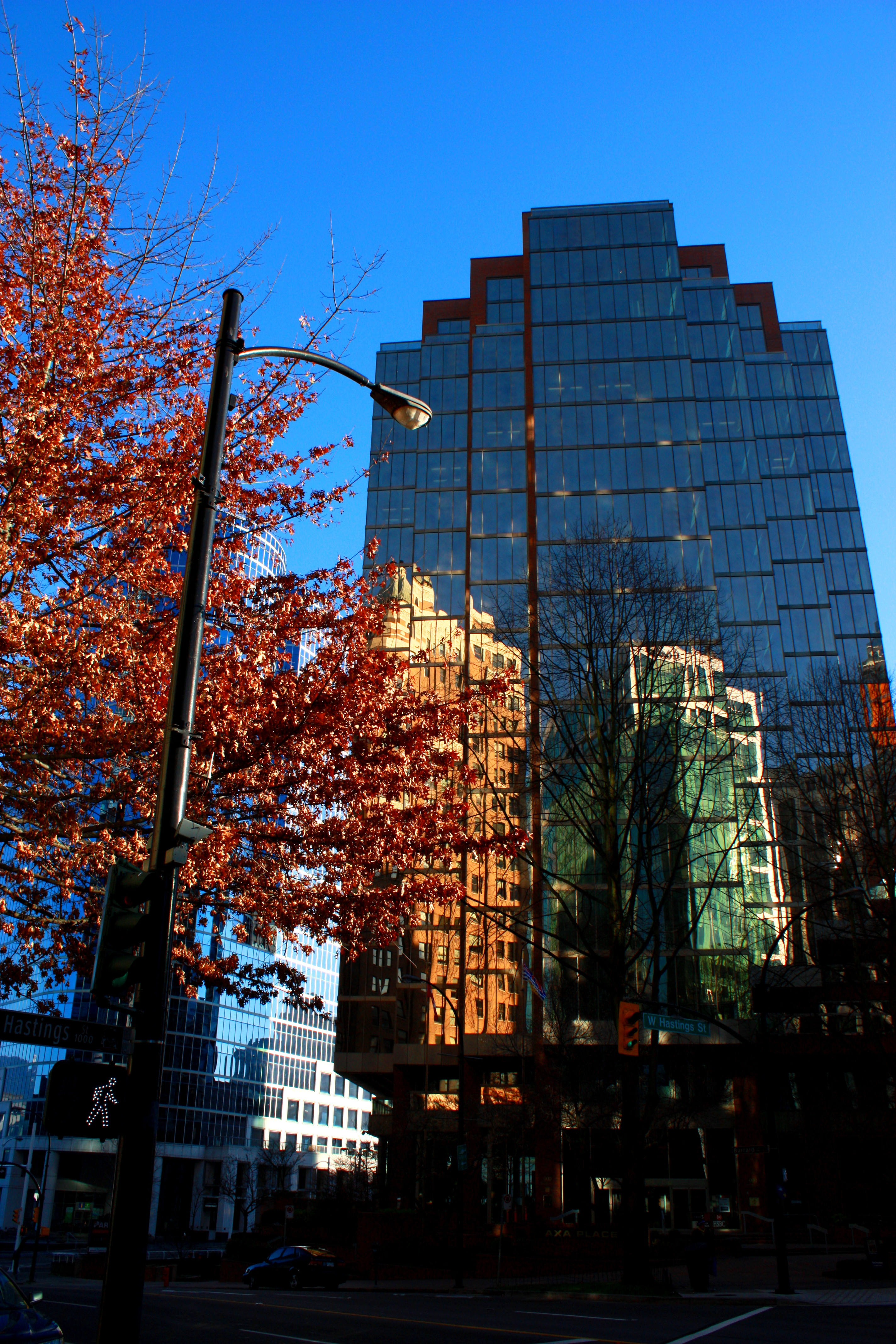 Downtown Vancouver, British Columbia